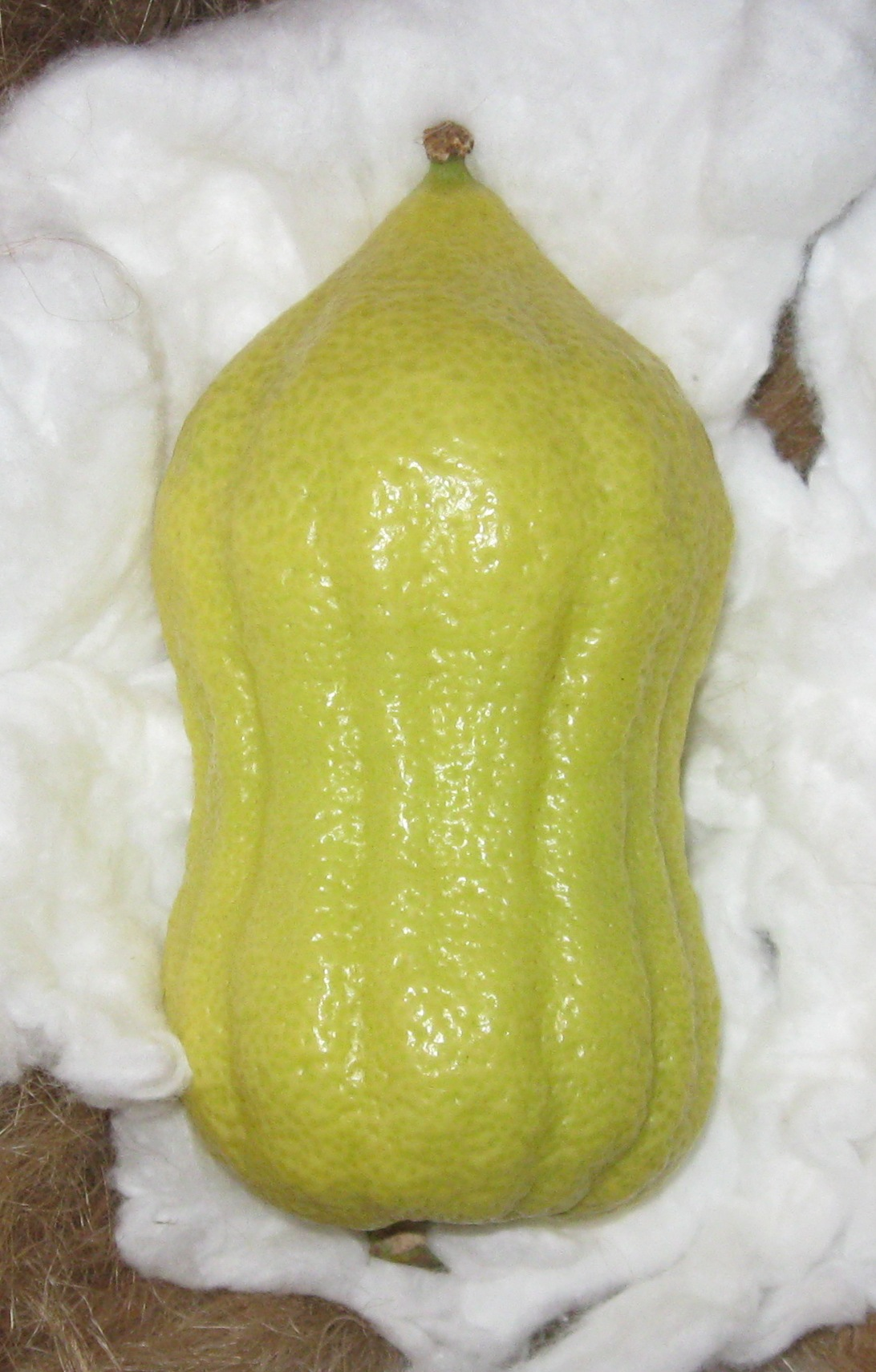 A Moroccan citron with a prominent Gartel